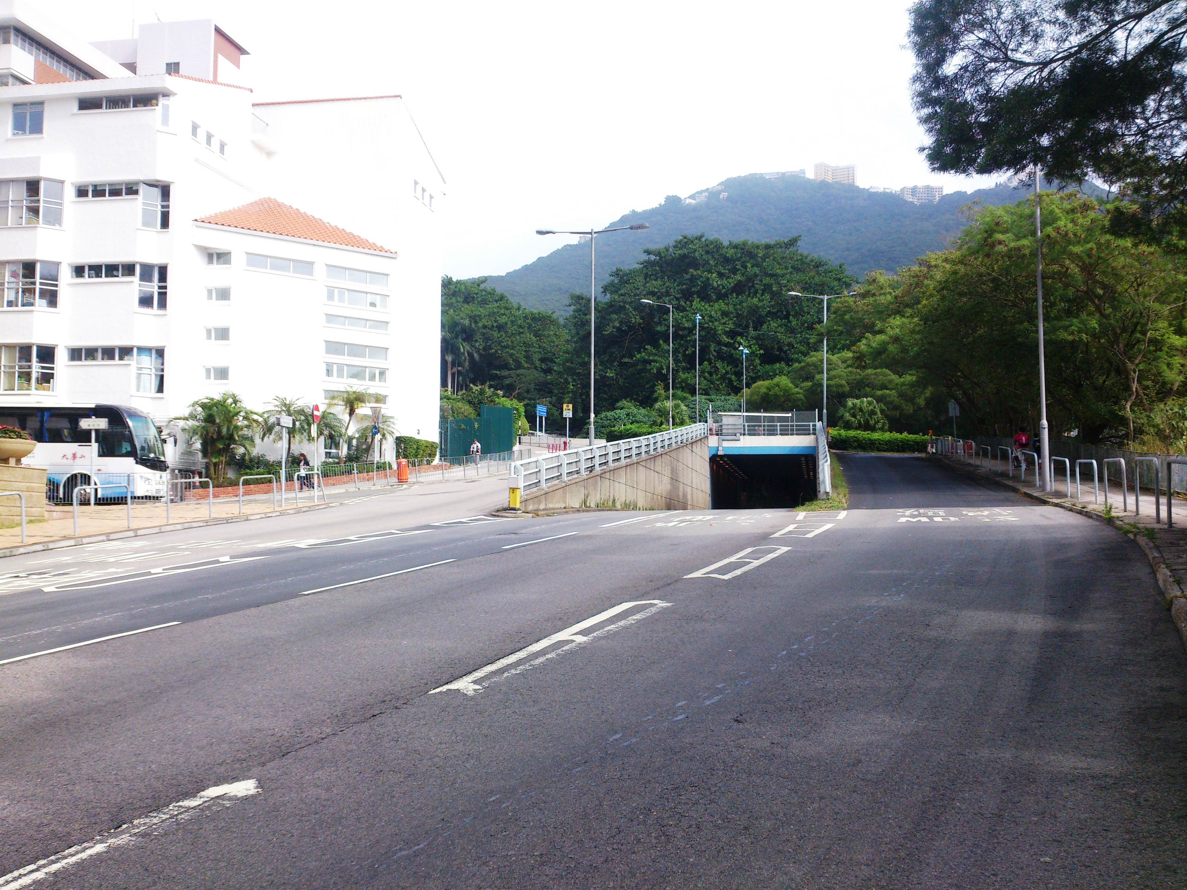 Wah Fu Road near Pok Fu Lam Terrace